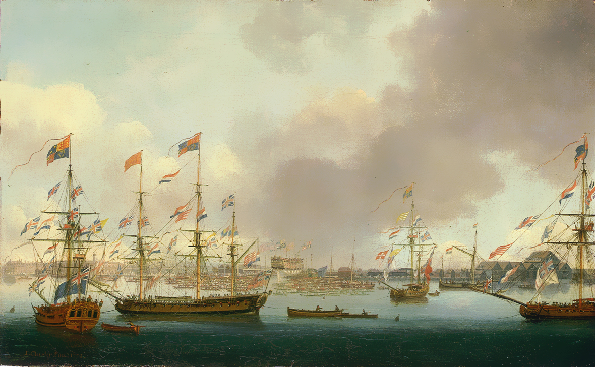 John Cleveley the Younger, Launch of HMS Alexander at Deptford in 1778. The launch of the 74-gun warship HMS 'Alexander' at Deptford Dockyard. The 'Alexander' can be seen on the stocks in the background. There are a number of barges and smaller vessels, full of spectators, watching her launch. In the foreground, several Royal Navy vessels are moored off the dockyard, including the 'Royal Caroline' on the far left. The 'Alexander' later served at the Battle of the Nile in 1798. In the painting the festive celebrations are emphasized through the inclusion of flags and pennants and the representation of crowds of spectators on the quayside and in boats the water. With its low horizon the work recalls Dutch 17th-century marine painting. Like his father, John Cleveley the Younger depicted the Royal Dockyards at Deptford, Woolwich and Chatham and in many works the son followed his father’s example in producing paintings commemorating launches. However, the artist abandoned his father’s stiff, documentary style in favour of a more open, atmospheric view. John Cleveley the Younger and his brother Robert, who also worked as an artist, treated a much wider range of subjects and addressed a wider audience through making pictures for reproduction in prints.